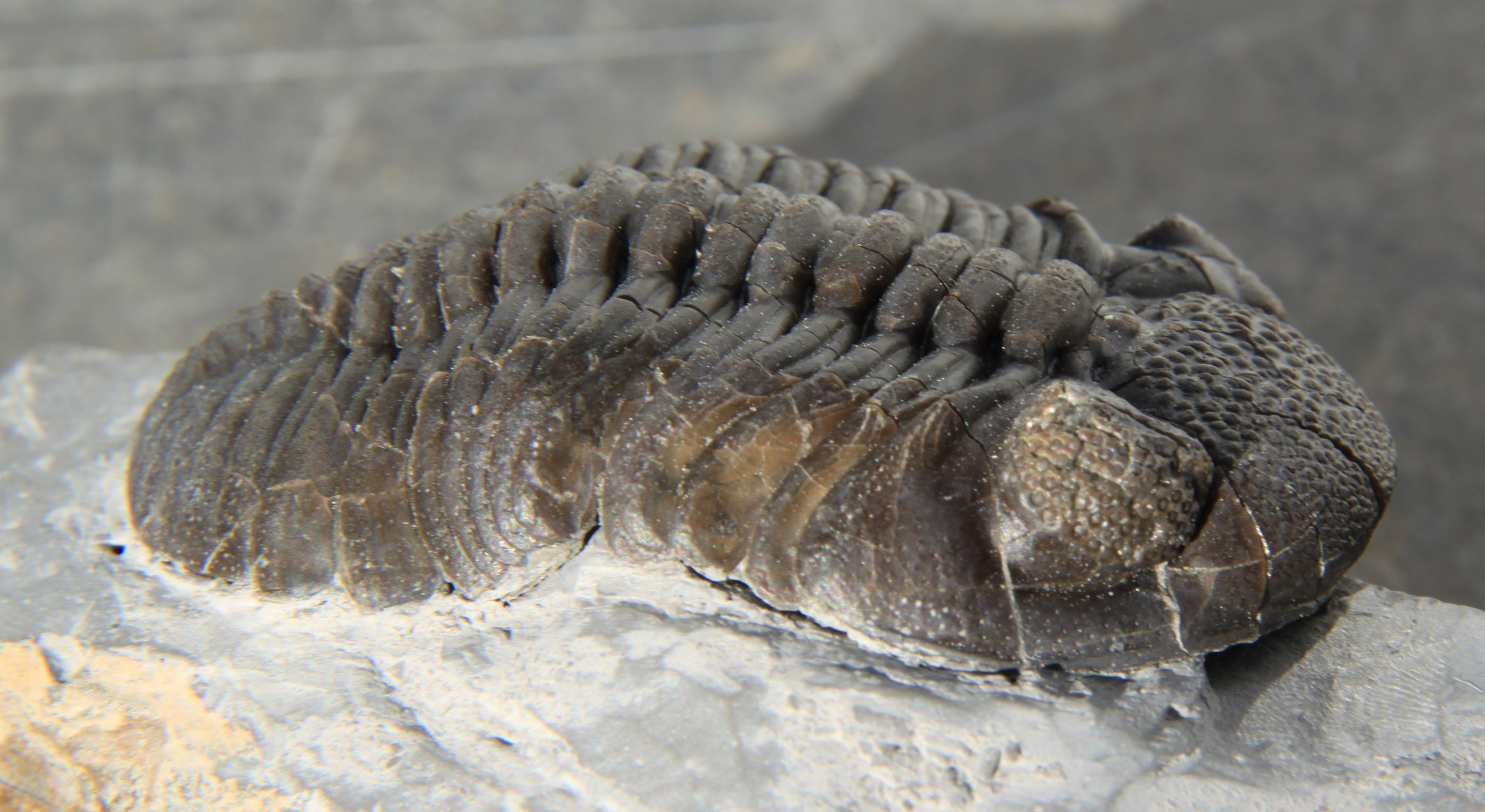 A Phacops rana crassituberculata trilobite, Order Phacopida, Family Phacopidae, 51mm along the axis, lateral view, collected from the Silica Shale, near Sylvania Ohio, USA, from the Middle Devonian (Givetian)